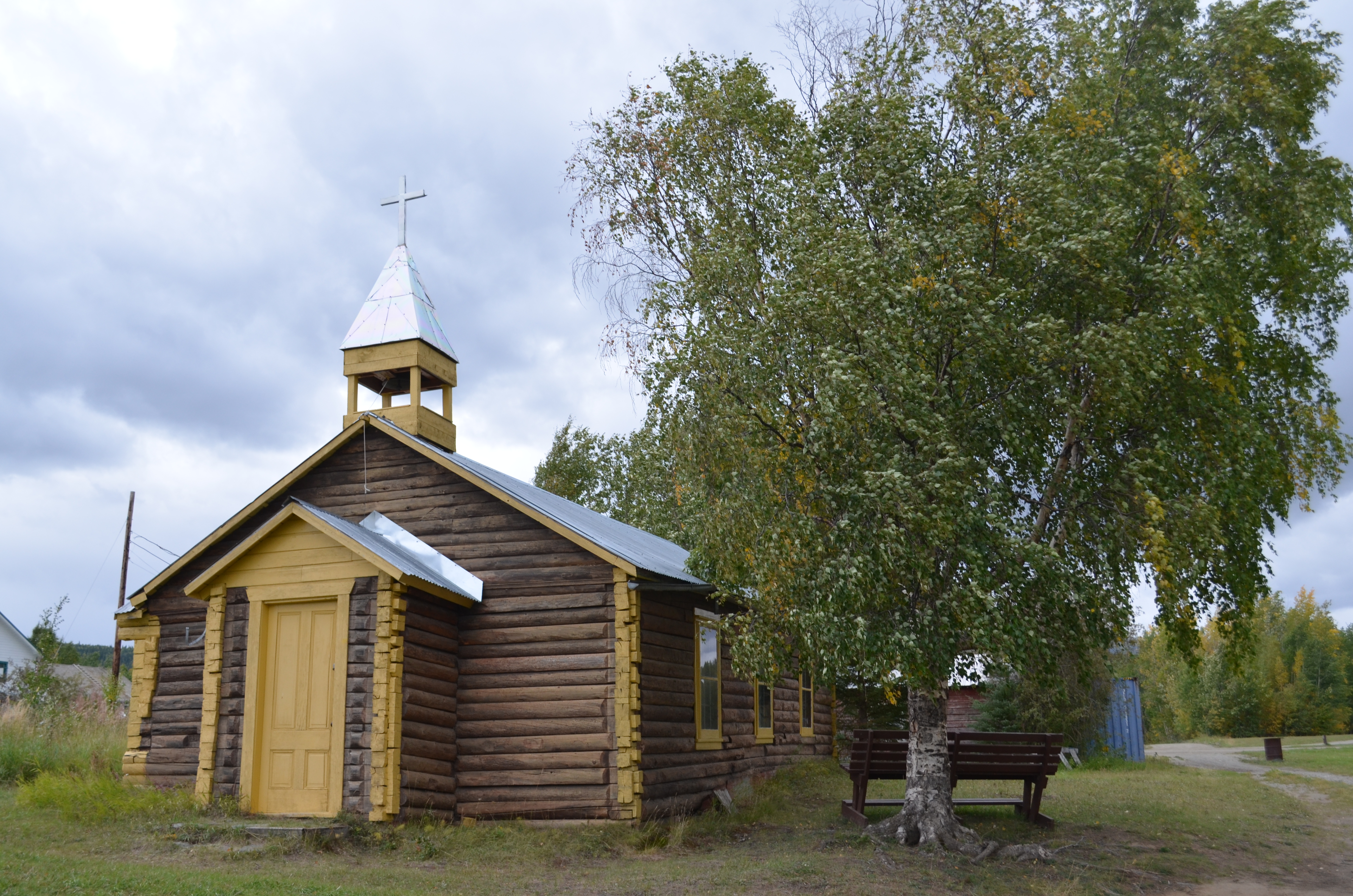 Eagle Historic District